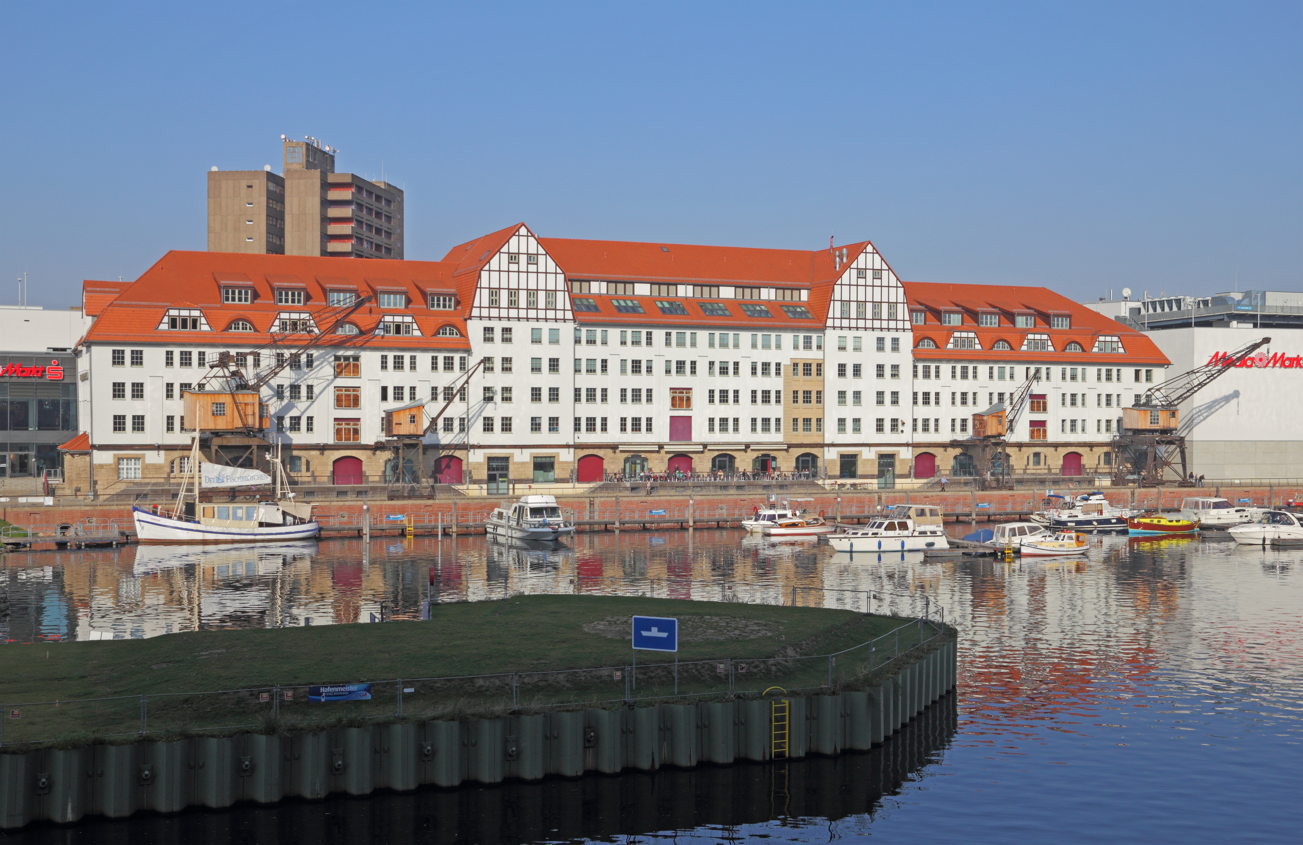 Berlin-Tempelhof. Tempelhof Harbour on the Teltow Canal.